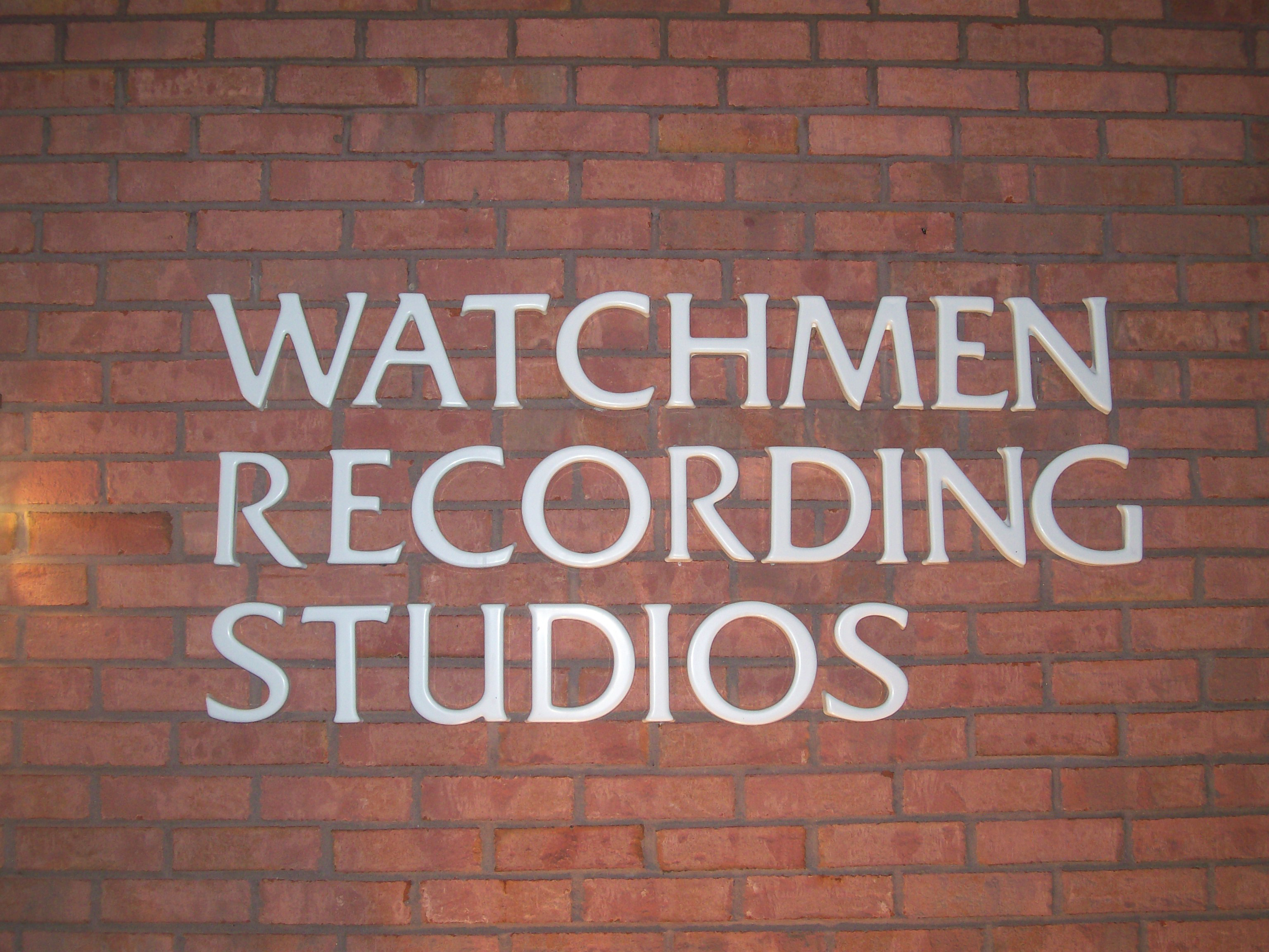 This is the outdoor display area of Watchmen Studios